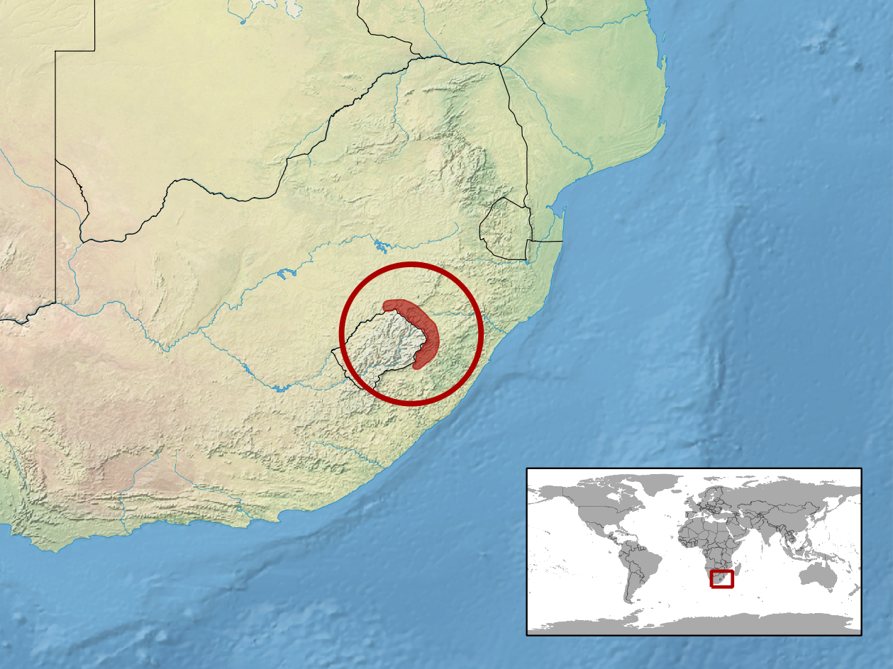 geographic distribution of Afroedura nivaria (Native: South Africa (Free State, KwaZulu-Natal))